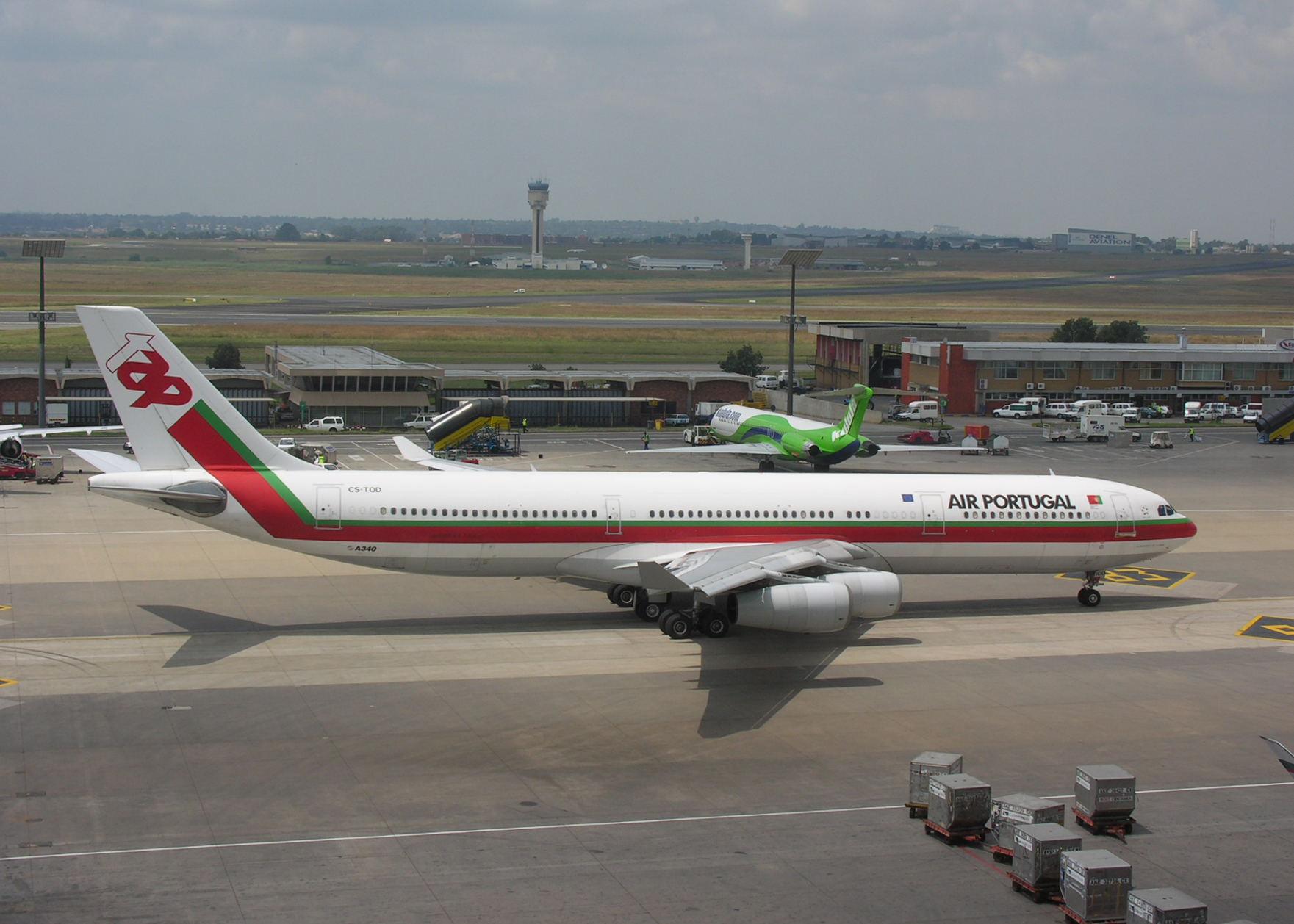 South Africa, TAP Airbus A340-312 CS-TOD taxiing at Johannesburg's O.R. Tambo International Airport